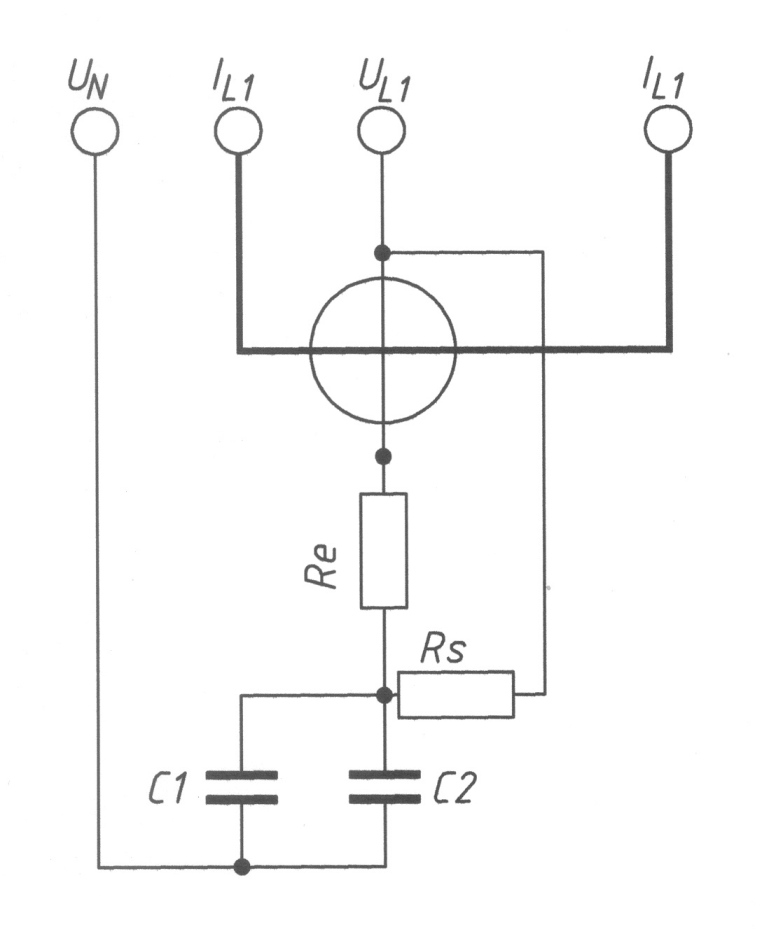 Single-phase reactive power meter